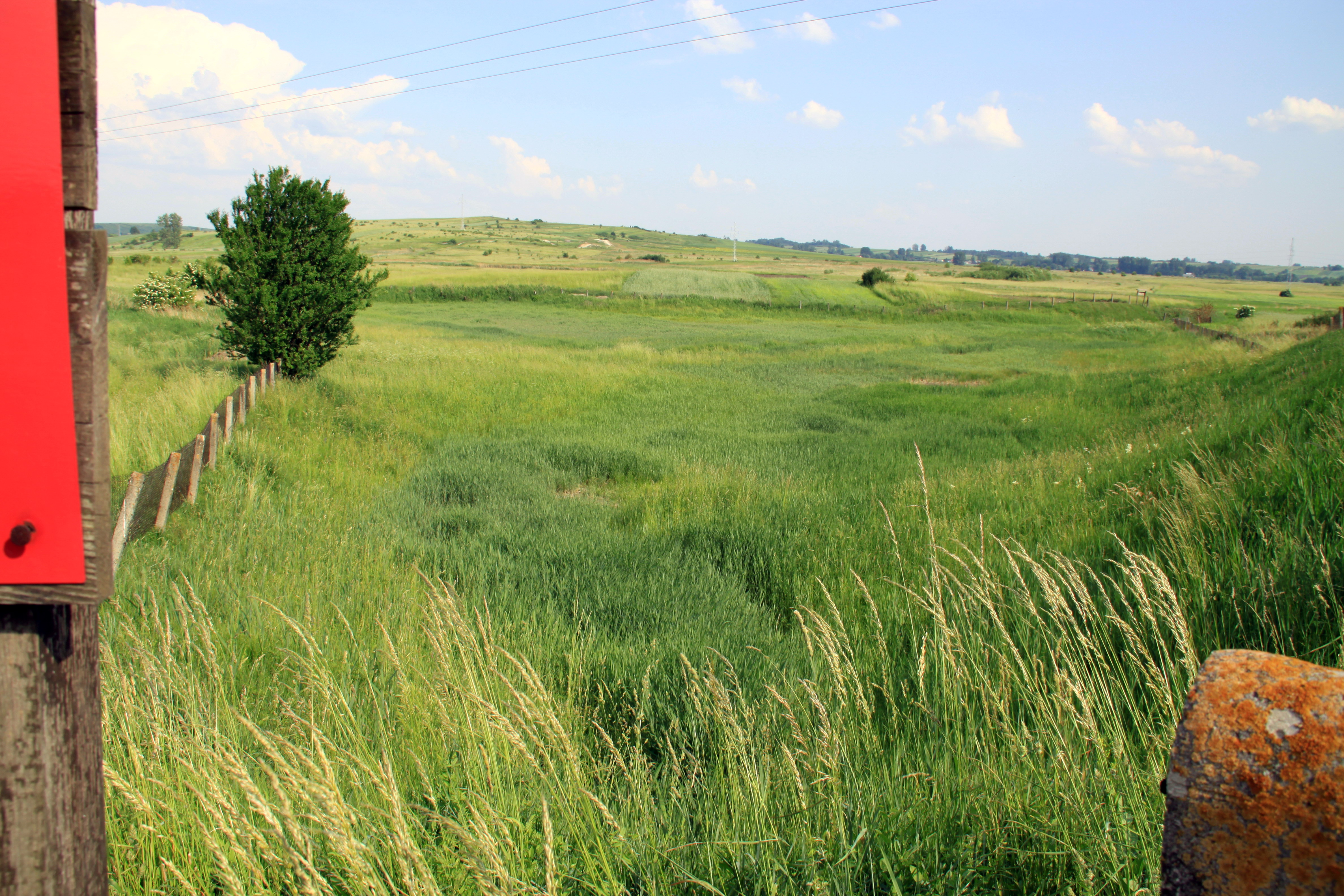 Owczary, Świętokrzyskie Voivodeship - Nature reserve Owczary.